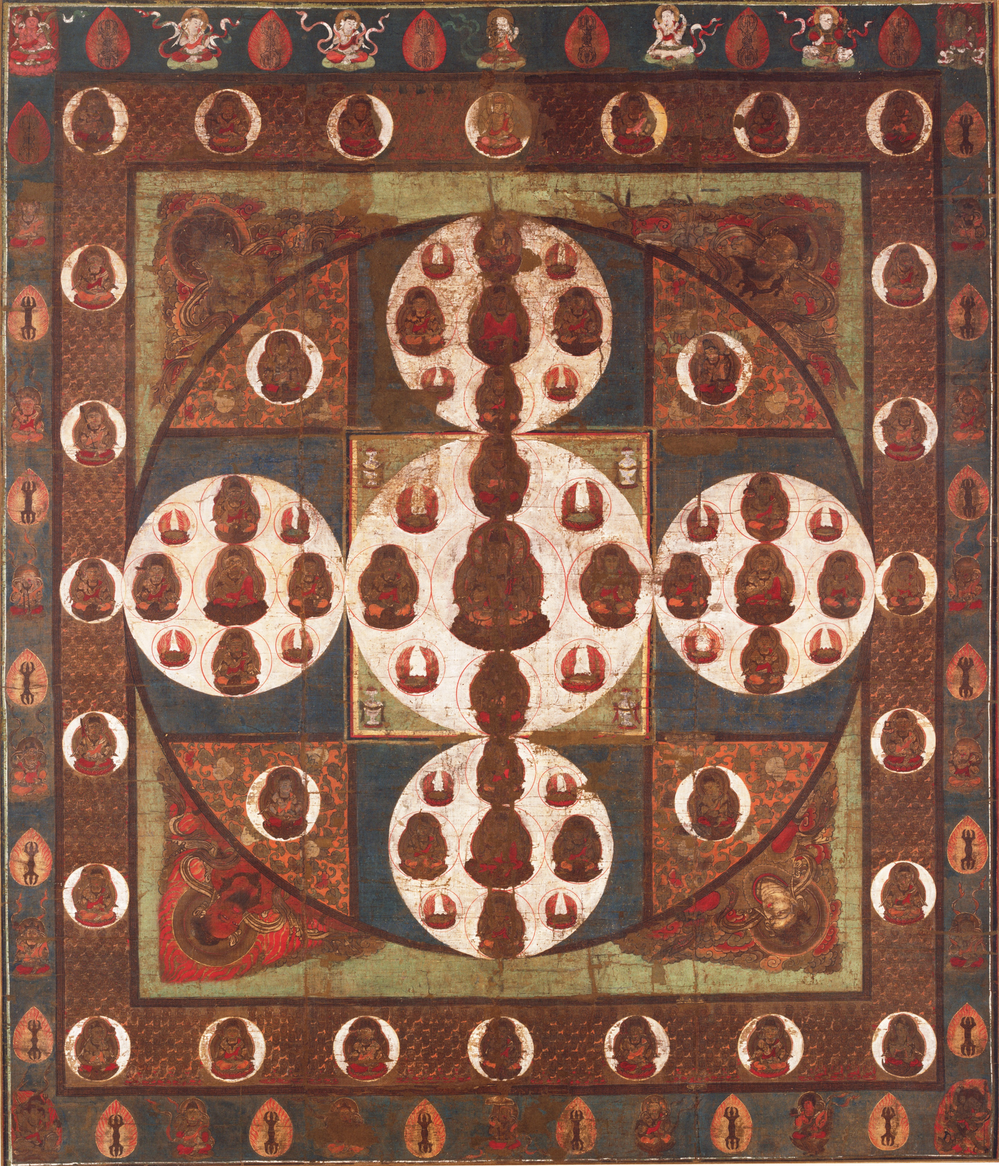 Ryokai Mandala, Nara National Museum, Japan